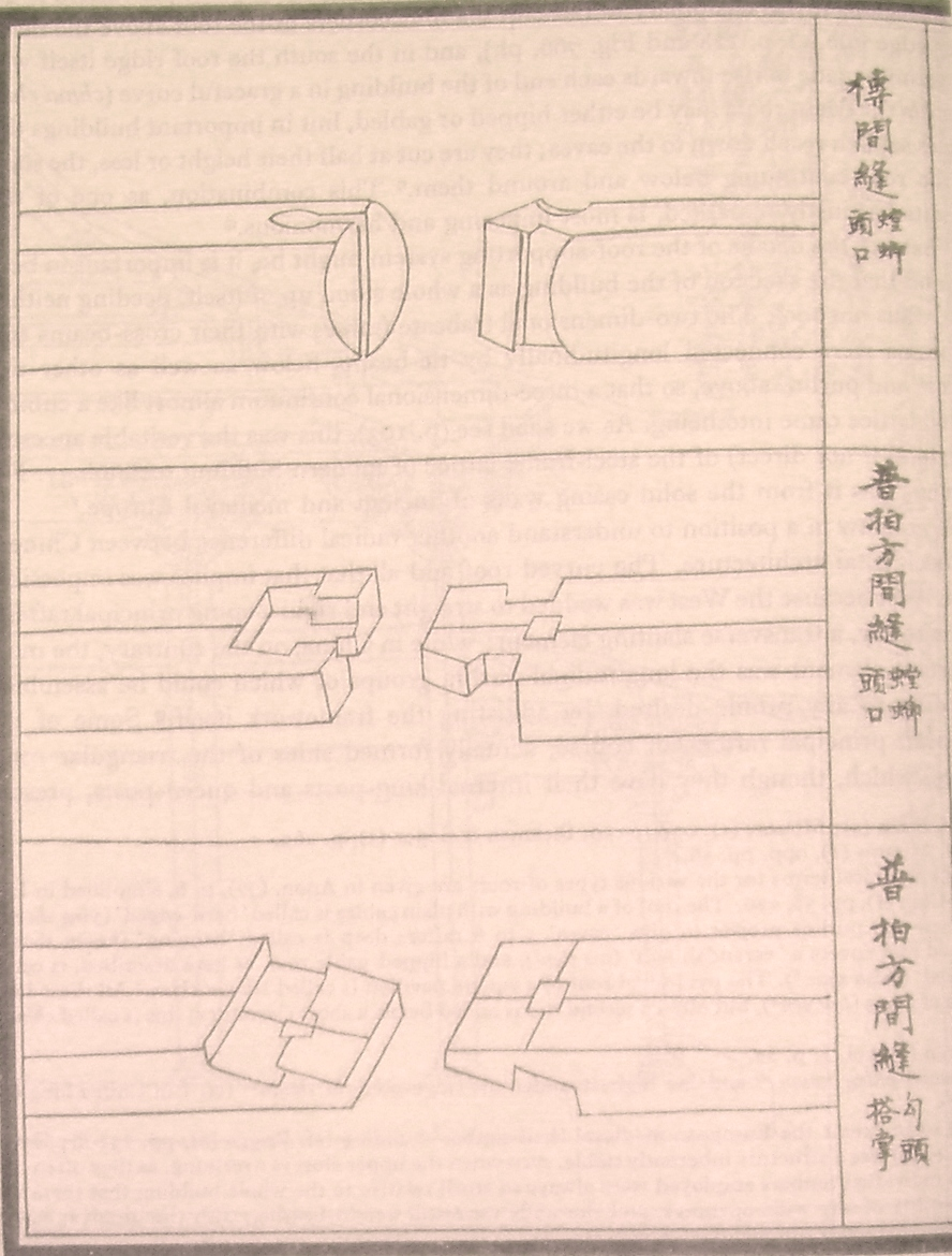 Smear removed from original by mixing channels: Red: 0.2 green + blue Green: 0.4 green + 0.65 blue Blue: blue as red is badly smeared, green is slightly smeared but has least noise, and blue is not smeared but has most noise.